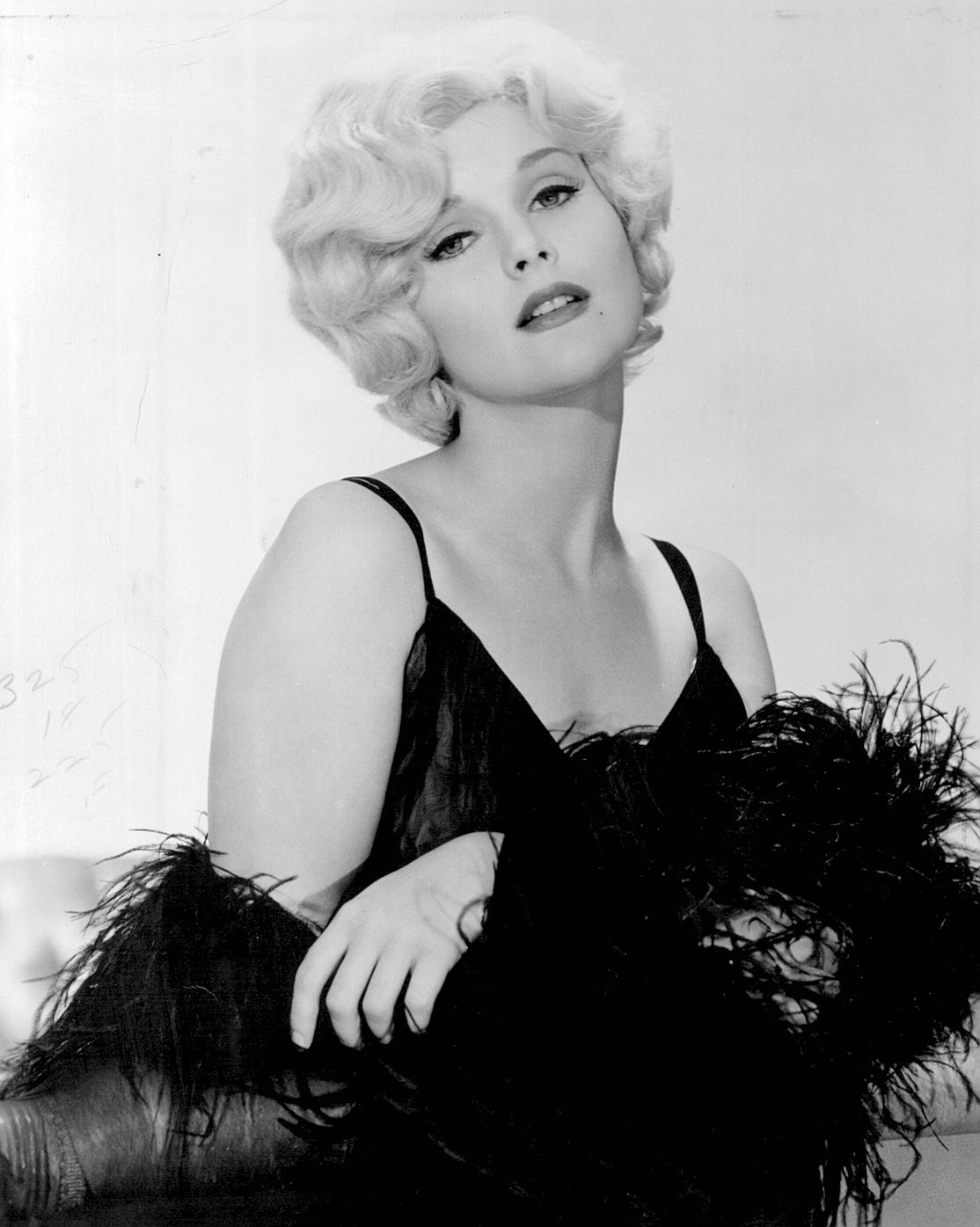 Photo of Carol Lynley as Jean Harlow. The item has no copyright markings on it as can be seen in the links above.